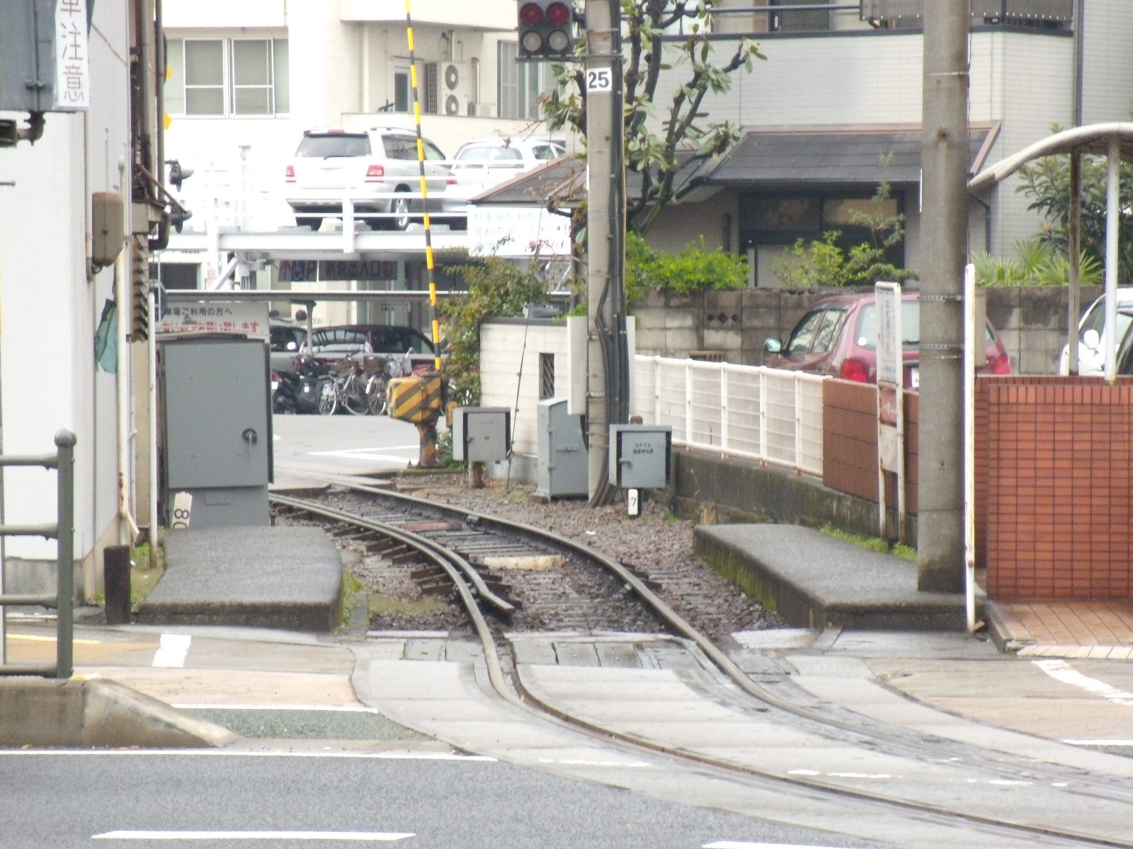 Iyo Railway Heiwa-dori Icchome Station